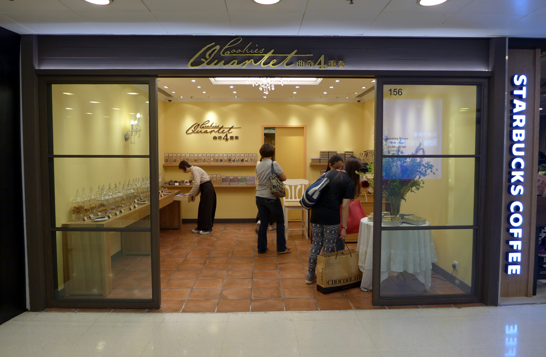 Cookies Quartet New Town Plaza Store